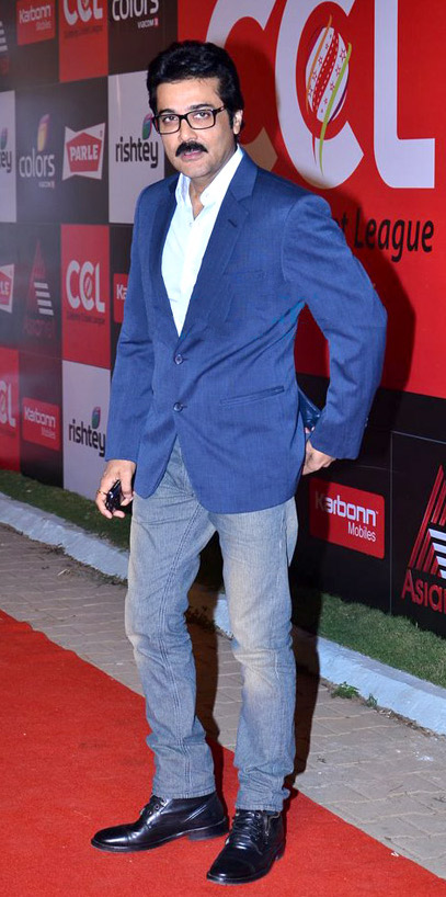 Chatterjee at CCL Launch